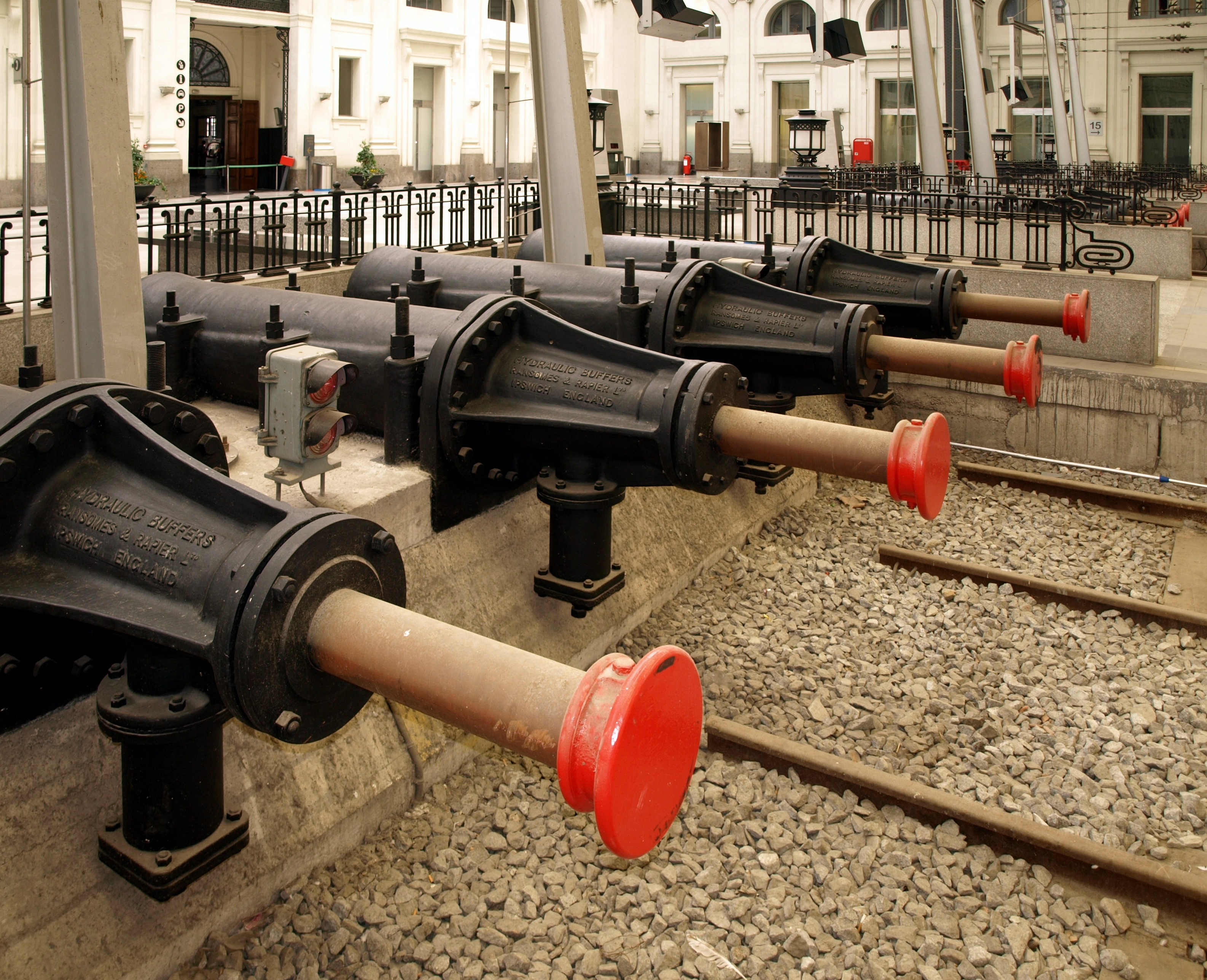 Estació de França buffer Place Lloc/Place: Estació de França Barcelona